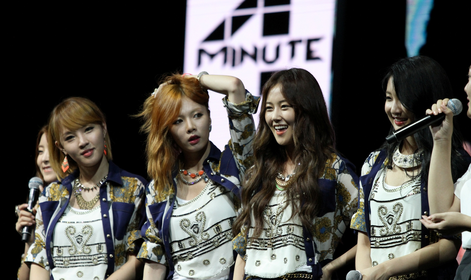 4Minute performing in July 2012